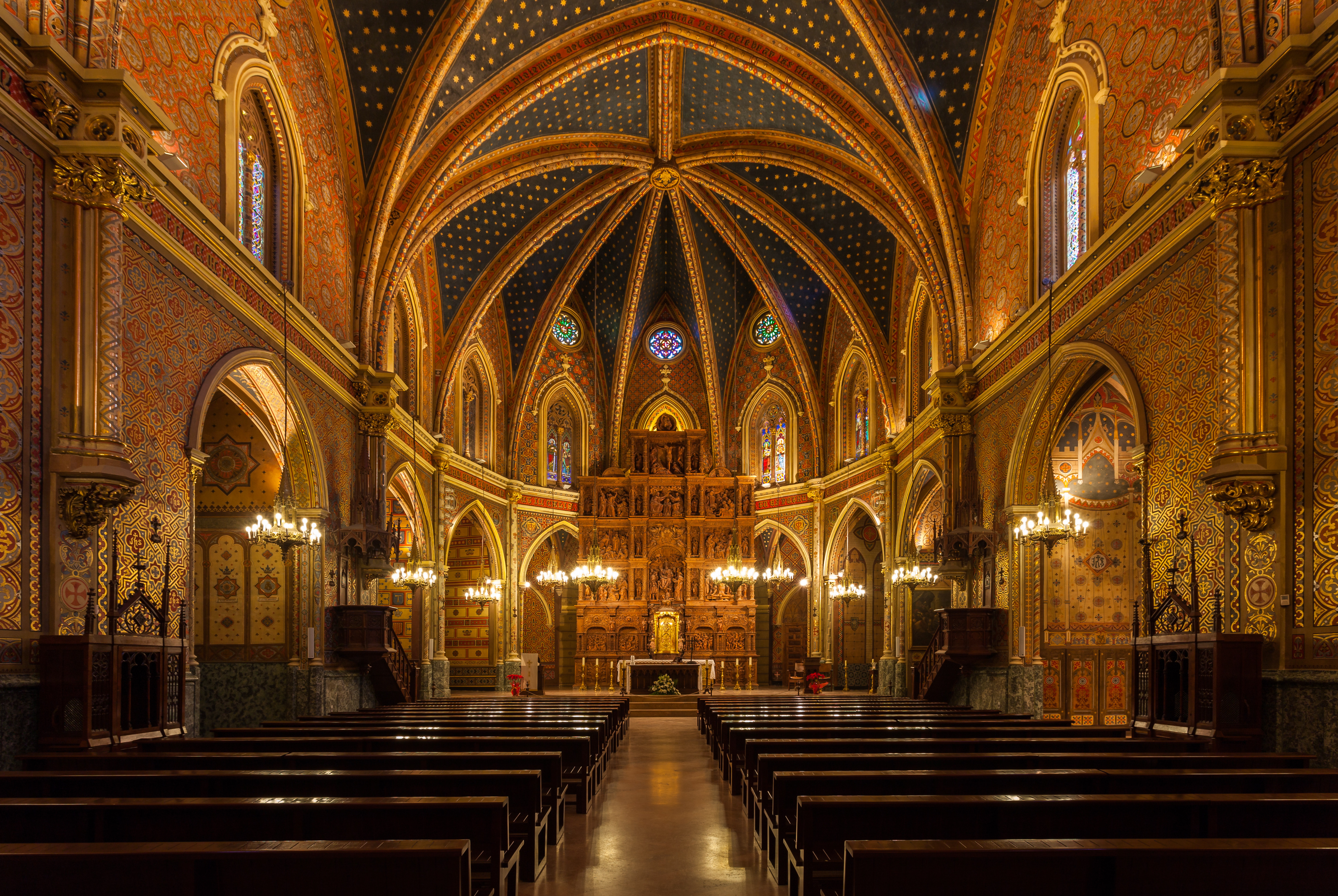 Interior view of St Peter's church in Teruel, Aragón, Spain. The church, of mudéjar style was built in the 14th century and was declared World Heritage in 1986. The decoration, performed between 1896-1902, is a neo-mudéjar style.